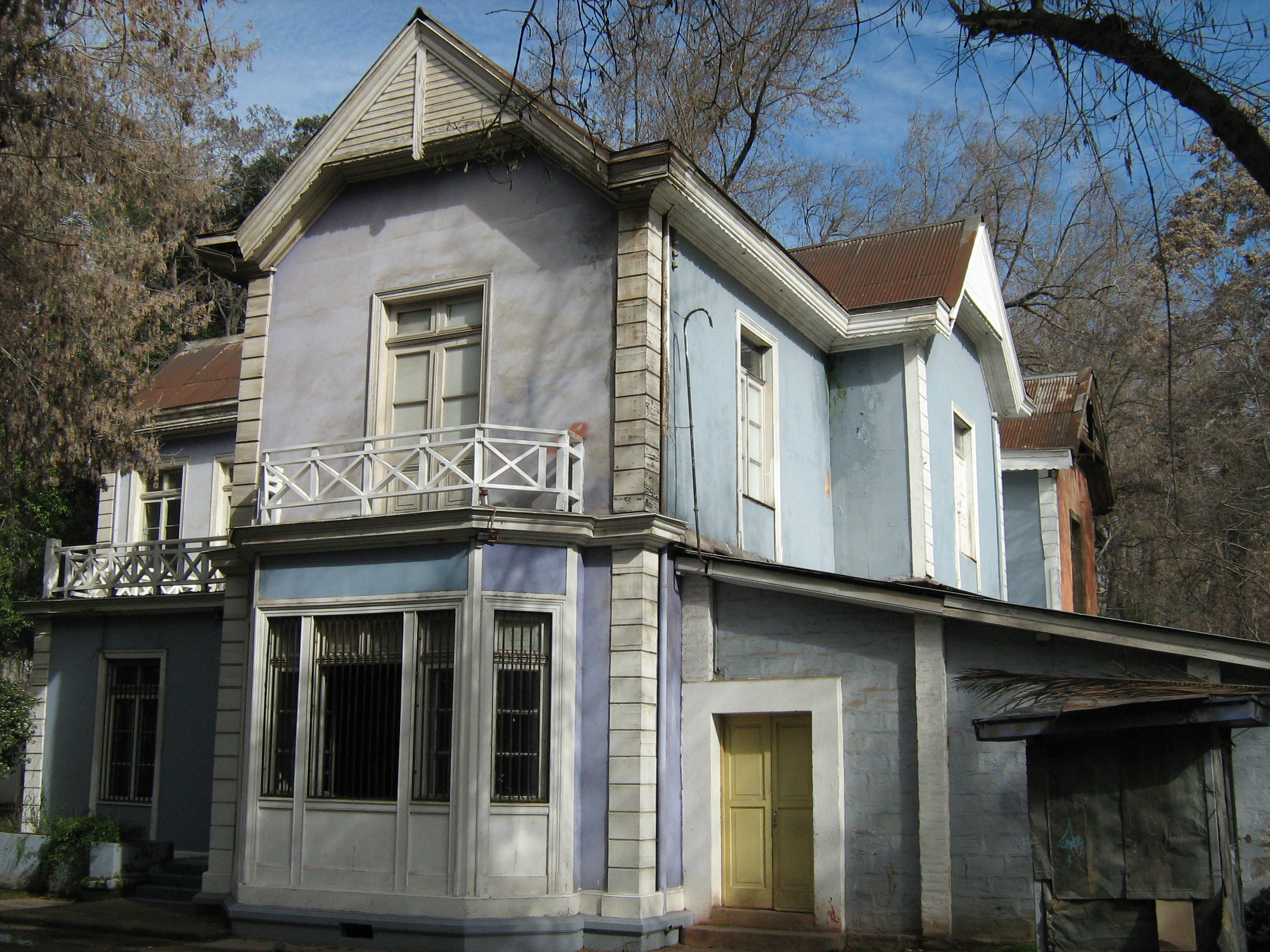 This is a photo of a national monument in Chile: 136